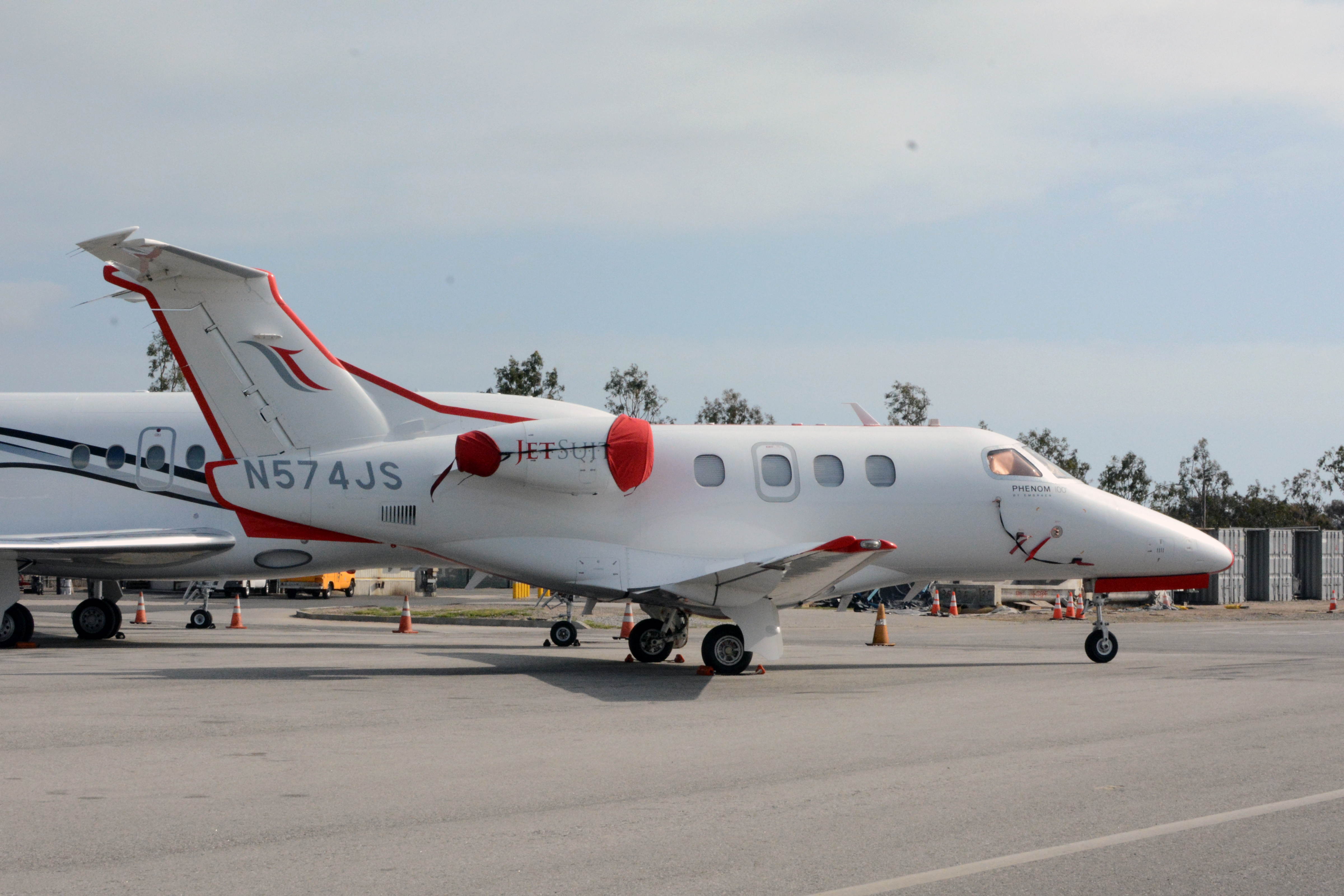 Embraer Phenom 100 at John Wayne Airport